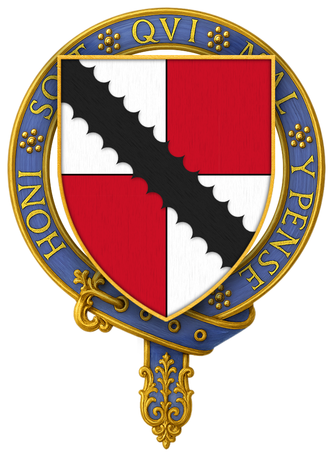 Coat of Arms of Sir Nele Loring, KG “ Sir Nele Loryng, one of the Founders… Arms: Quarterly, Argent and Gules, a bend engrailed Sable. ” BELTZ, George Frederick, Memorials of the Order of the Garter from Its Foundation to the Present Time, London: William Pickering, 1841.